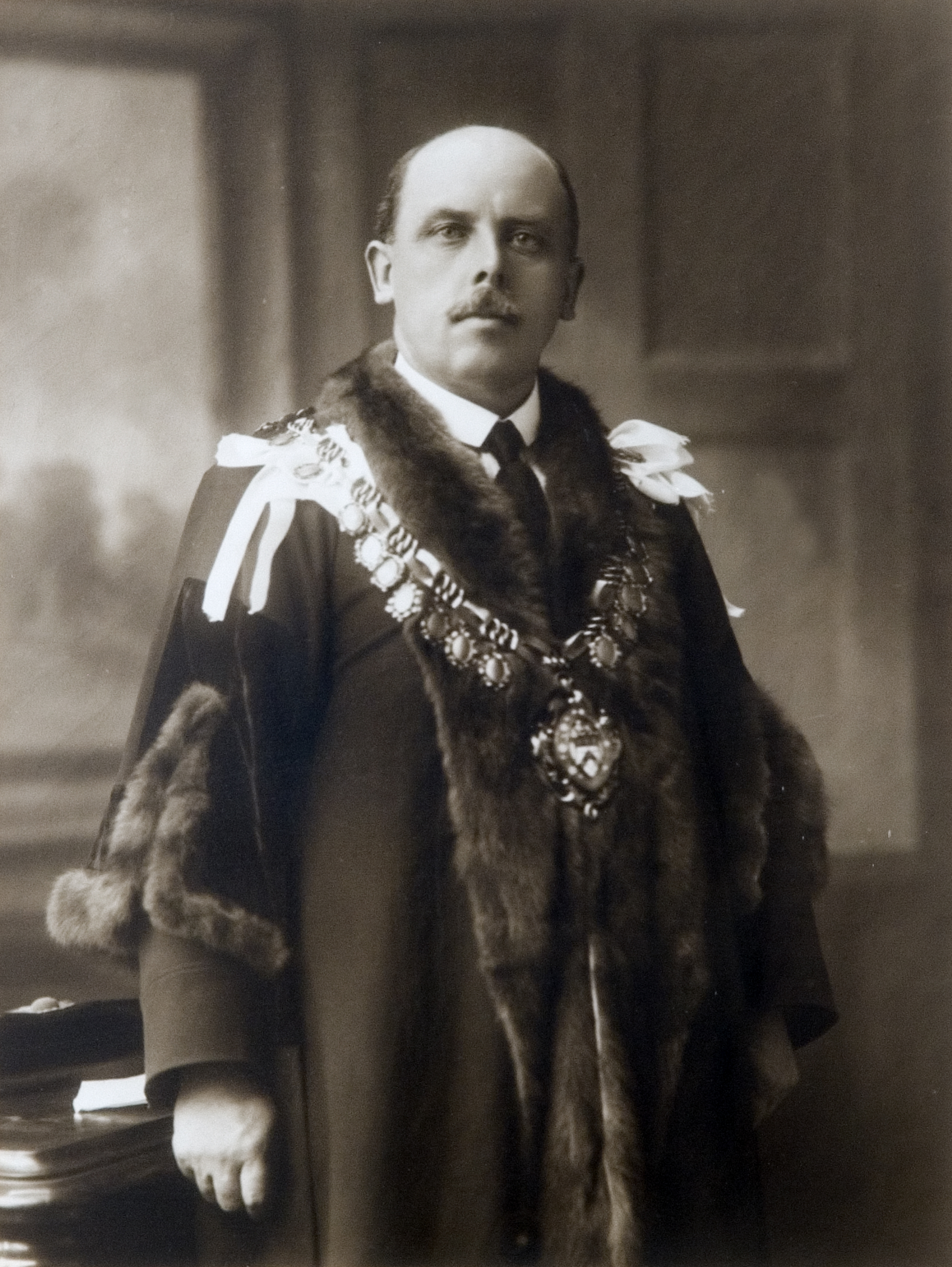 Photograph of Sam Jones, Mayor of Barnsley, South Yorkshire, 1920-1922. He is wearing the traditional mayoral robes of Barnsley, presented to the town in 1873.